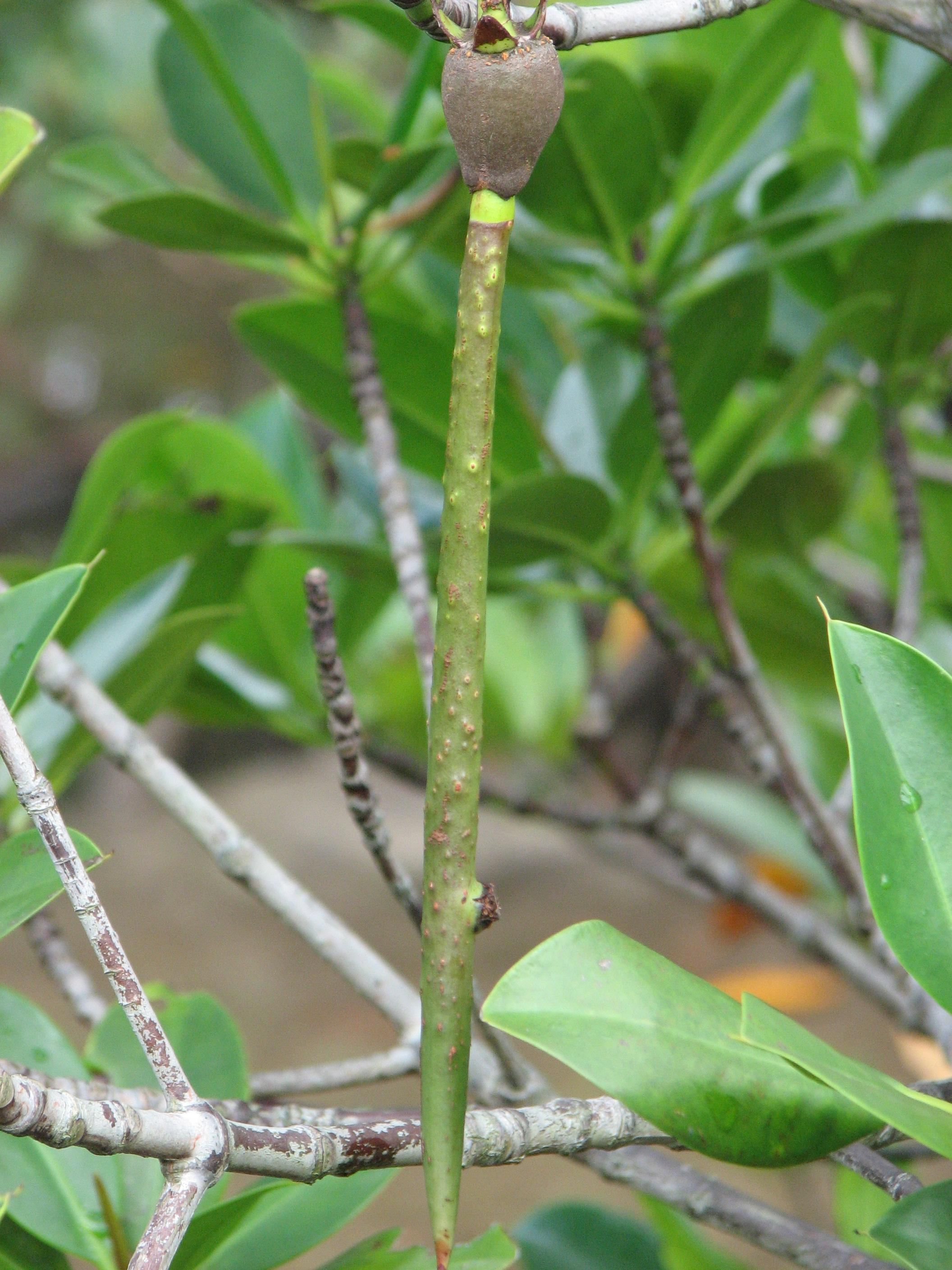 Rhizophora mucronata Propagules at Iriomote is. Okinawa, Japan.